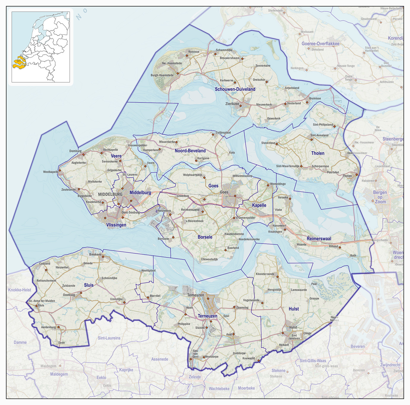 Map of the Dutch Safety Region, with an impression of the terrain and the municipal borders as of 1-1-2017.